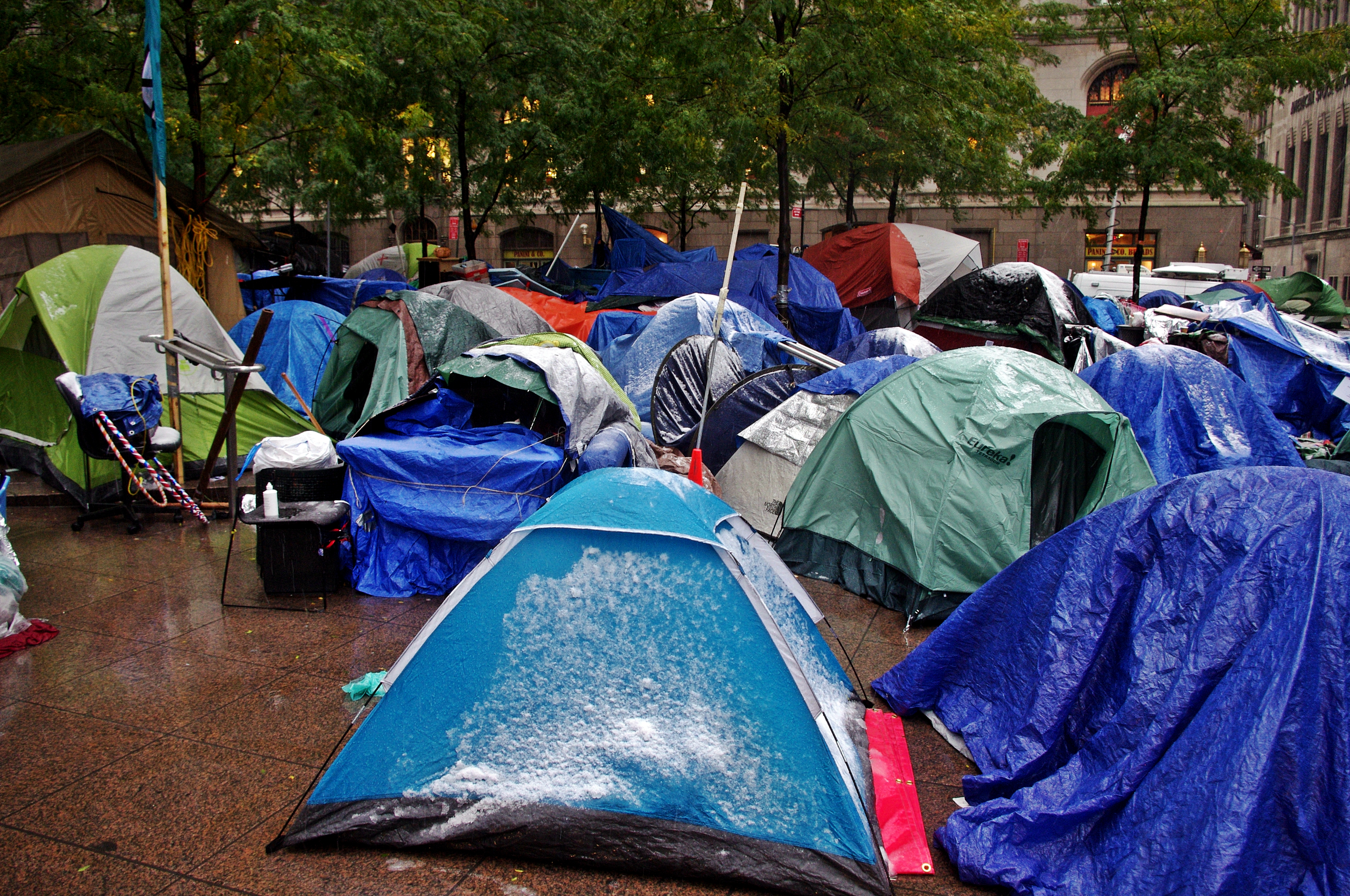 Occupy Wall Street camp on Saturday, October 29, the day of the early winter storm. Photos of OWS the protesters and their tent city.